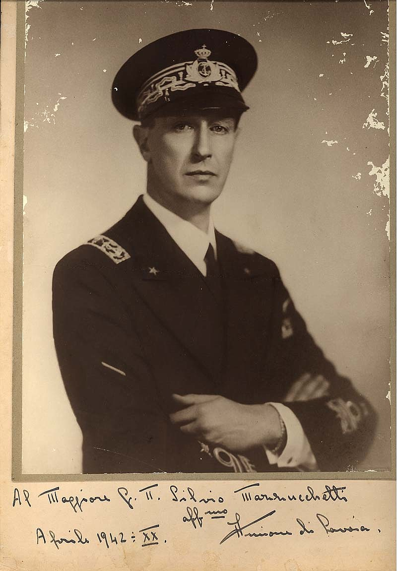 Prince Aimone of Savoy, King of Croatia, 4th Duke of Aosta (b.1900-d.1948)